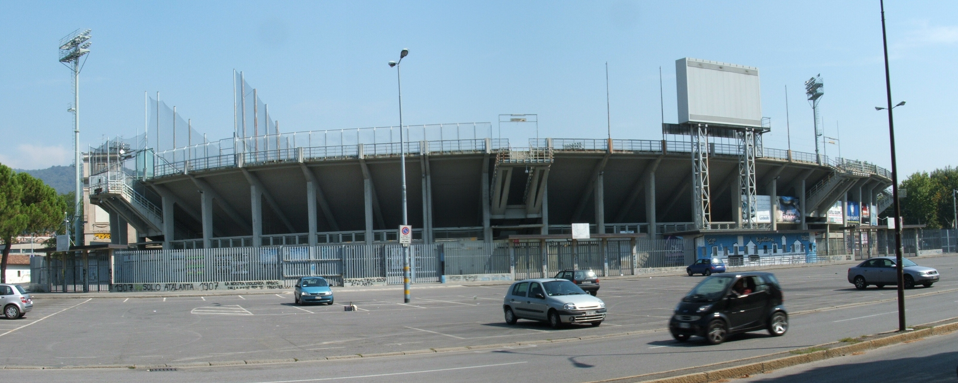 Stadium of Bergamo - Italy